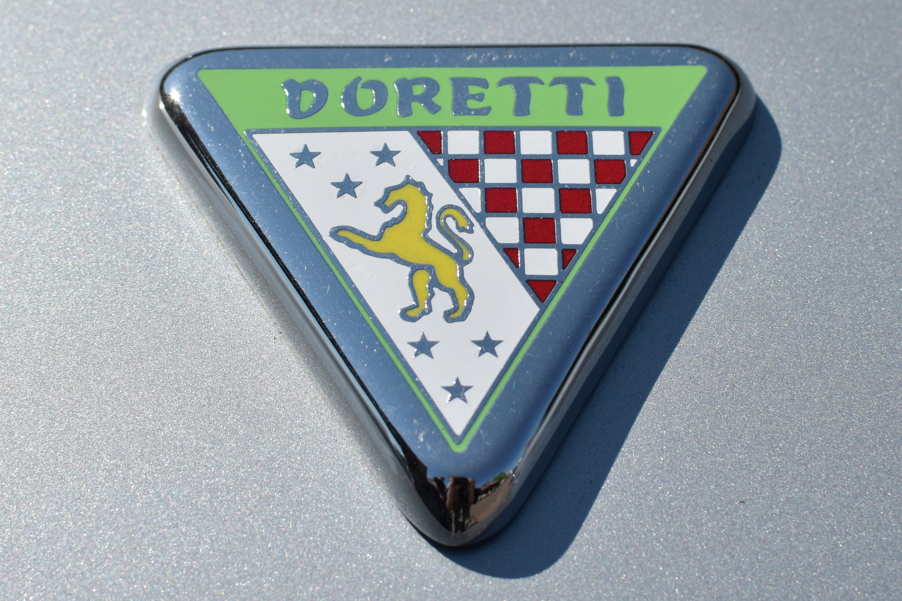 Swallow Doretti Logo